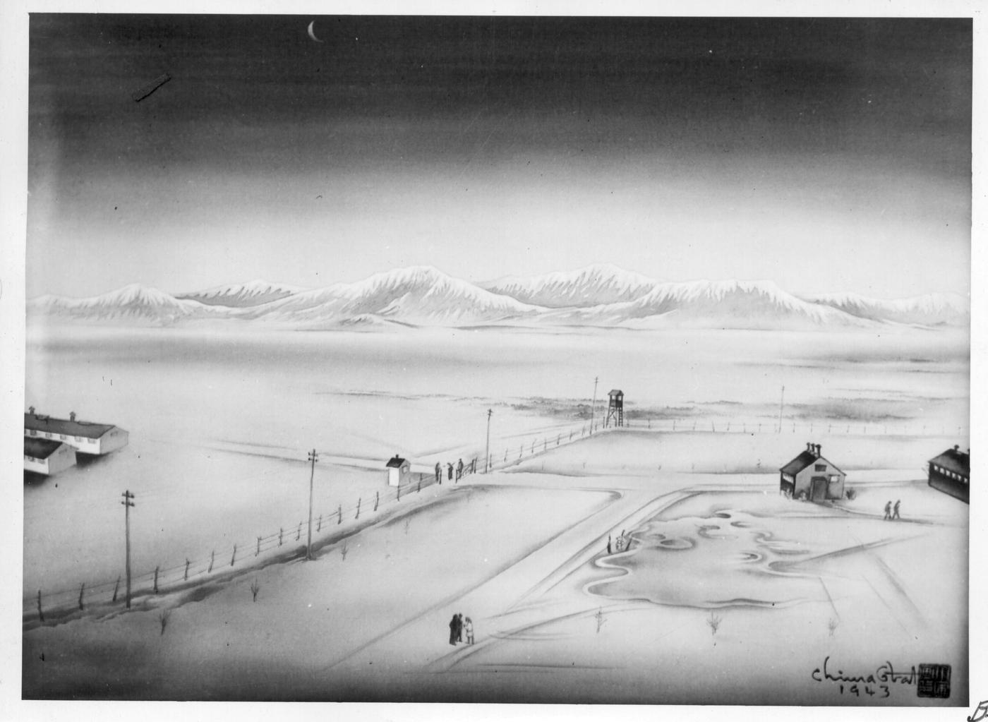 New Moon. This entry in the art exhibit, recently held at Cambridge, Massachusetts, under sponsorship of the Friends meeting, won first prize. ARTIST: Chiura Obata, Central Utah Relocation Center, Topaz, Utah. DATE: ?/?/43 [?] -- Cambridge, Massachusetts. ?/?/43 Volume 35, Section E, WRA no. B-647, from UC Berkeley, Bancroft Library; War Relocation Authority Photographs of Japanese-American Evacuation and Resettlement, Series 12: Relocation: new homes, etc. (various places).